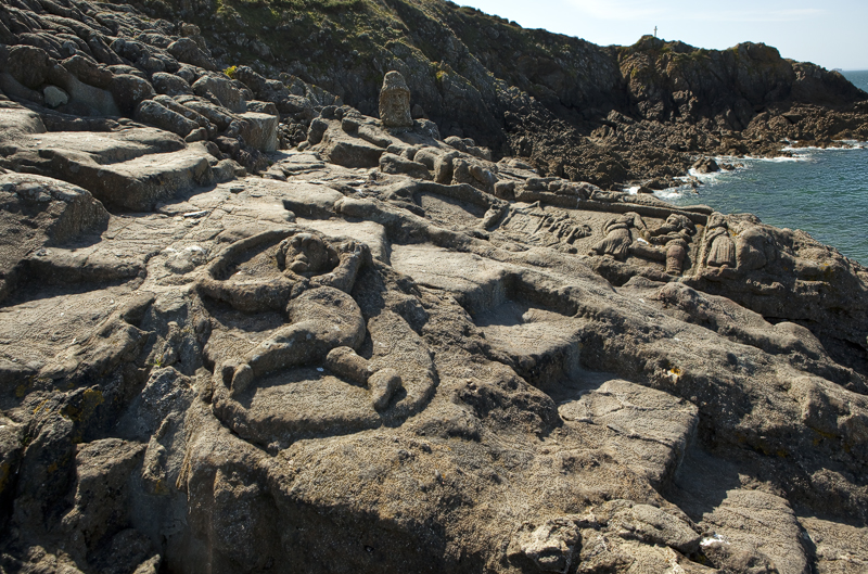 Carved rocks in Rothéneuf (Saint-Malo).